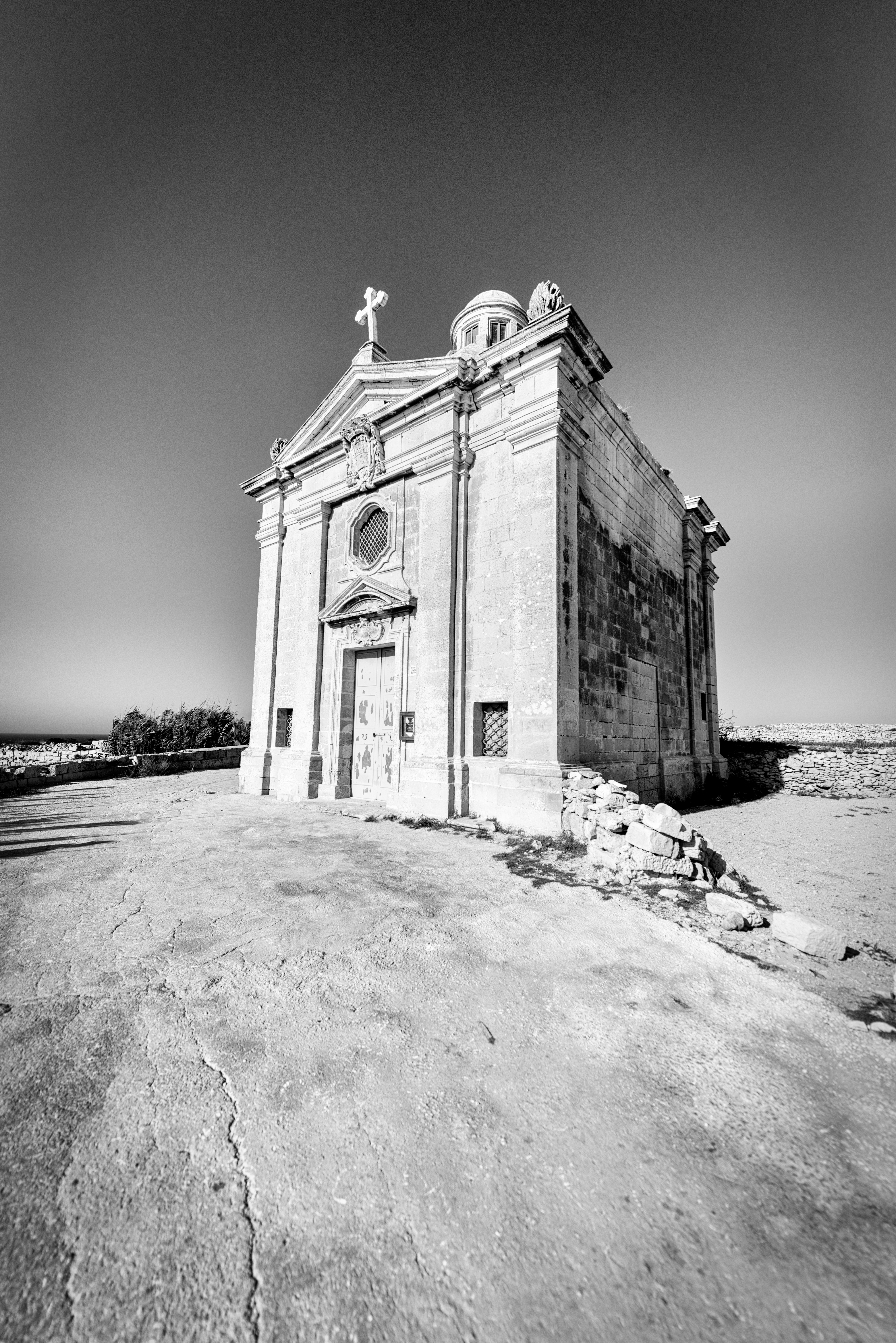 Two chapels dedicated to St Nicholas of Bari existed here till 1659, but in his pastoral visit of the same year, Bishop Balaguer had both of them closed as they were on the verge of collapse. The one still standing today, known as Tas-Subricint, was rebuilt by John Baptist Azzopardi Barbara. The first stone was laid and blessed on July 10, 1759 by Rev.John Mary Azzopardi. This media is about Maltese cultural property with inventory number 01741.